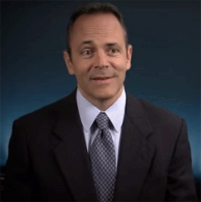 JPG version of File:Matt-Bevin-AARP.gif. A screenshot of then gubernatorial candidate and now Kentucky Governor Matt Bevin from a 2015 AARP video voter guide.